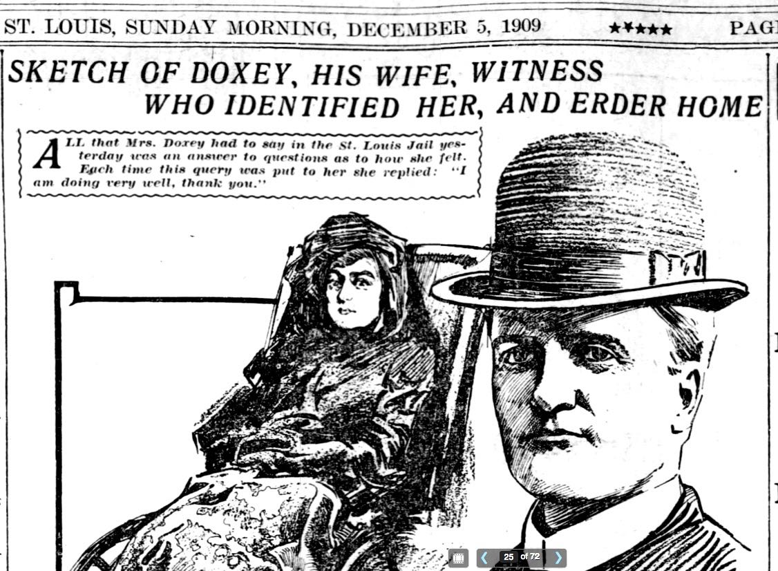 Dora Doxey in wheelchair and Loren Doxey in foreground. Image from front page of St. Louis Press-Dispatch of December 5, 1909. They were on trial for murder.